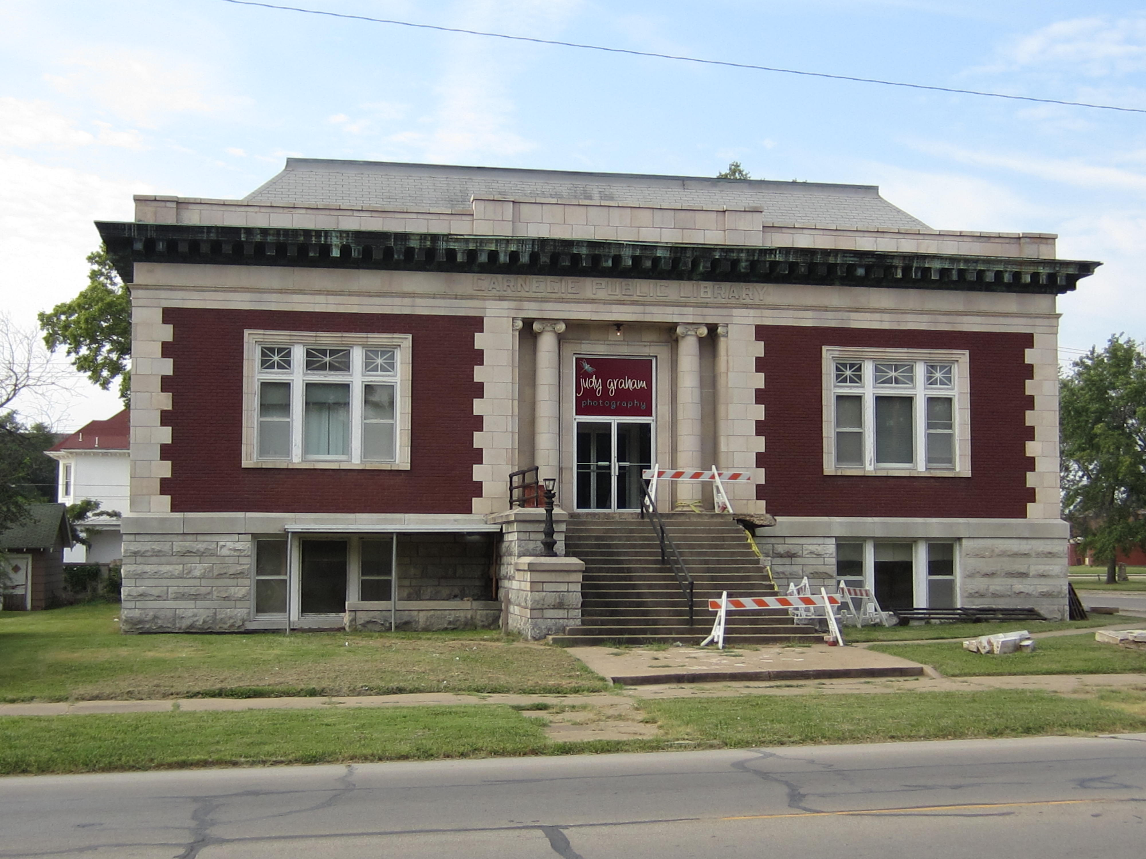 Coffeyville, KS former public library building. (2013)